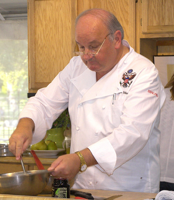 Chef Roland Mesnier doing a cooking demonstration at the 2007 Texas Book Festival, Austin, Texas, United States.